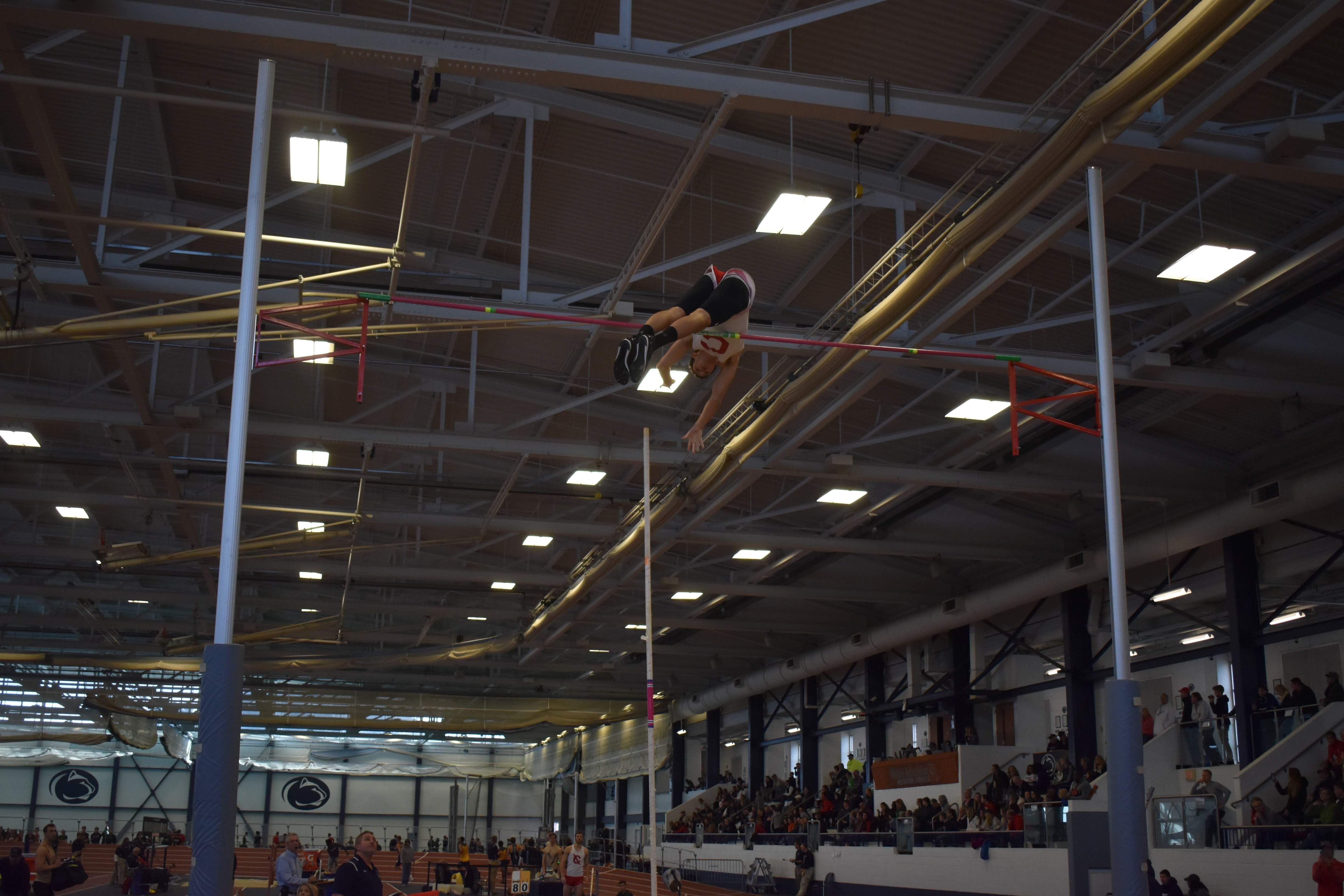 Kiswahili: Johannes Stromhaug attempting a height at Pennsylvania State University